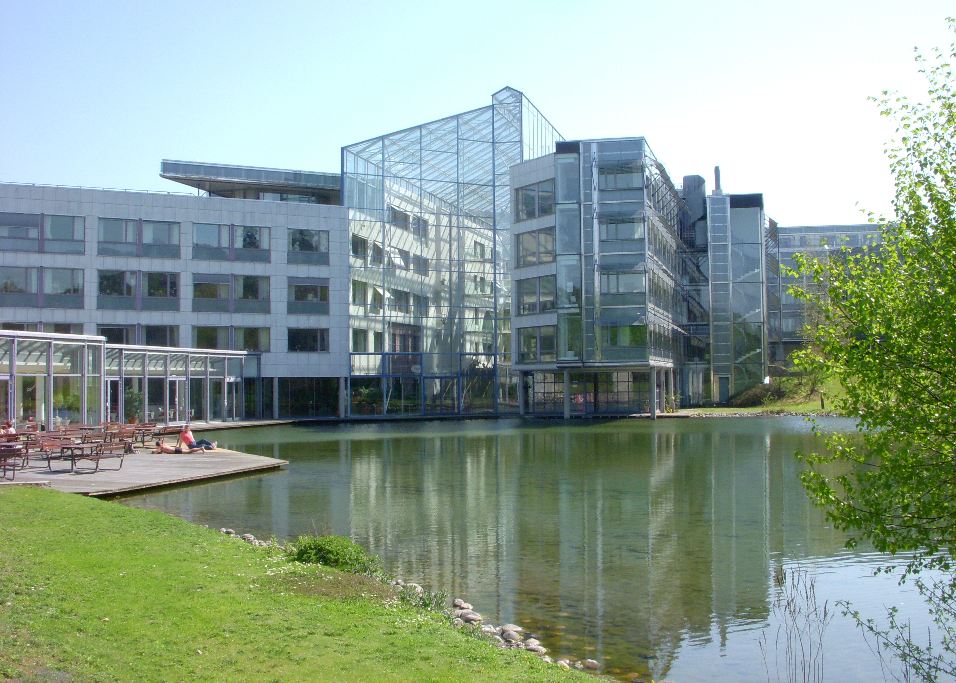 Scandinavian Airlines head office in Solna, Sweden